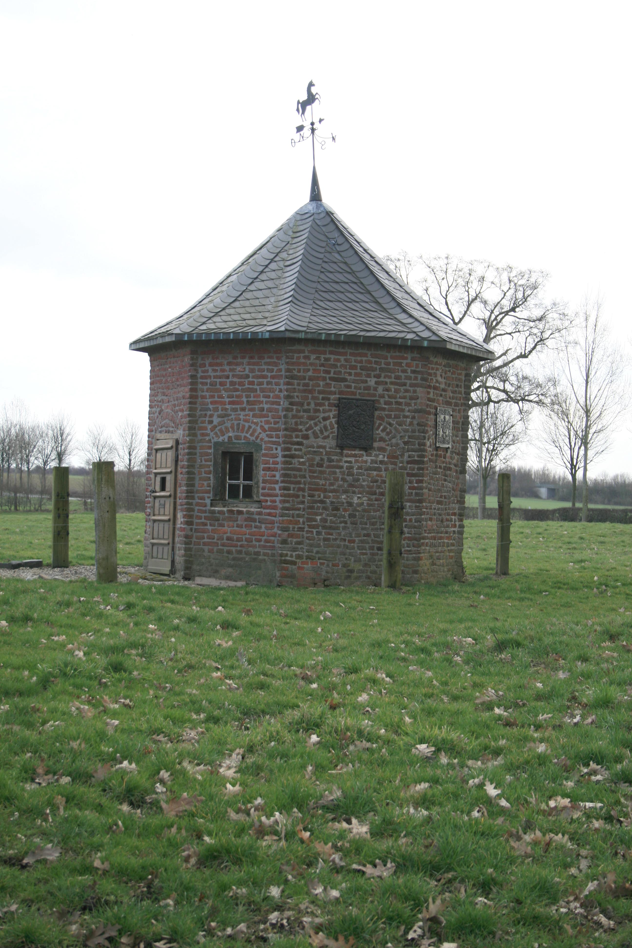 Pavillon in Loherhof bei Hünshoven